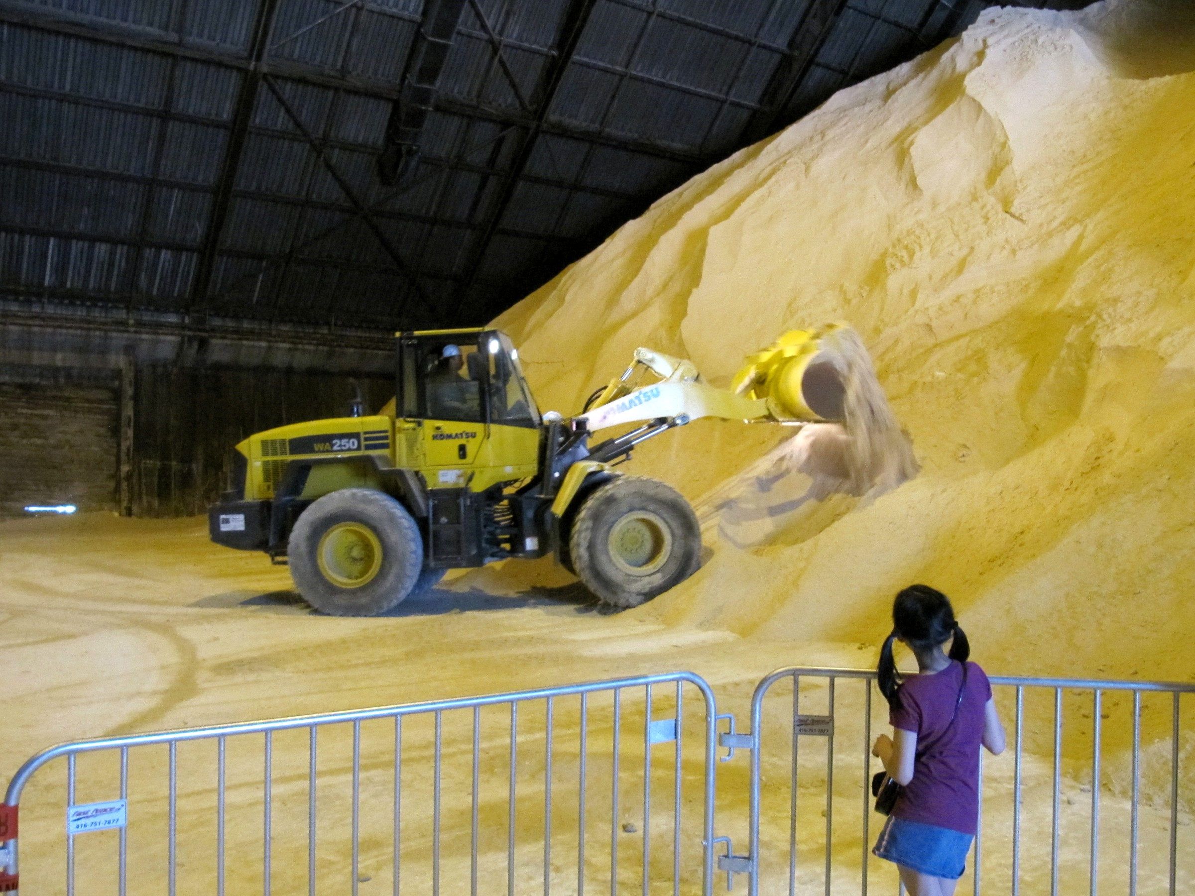 Interior of the Redpath Sugar factory, on Toronto's Waterfront, during Doors Open 2010. This guy was driving around in the Sugar Shed, moving sugar from one place to another and then back again, and generally posing for pictures. Doors Open Toronto 2010.